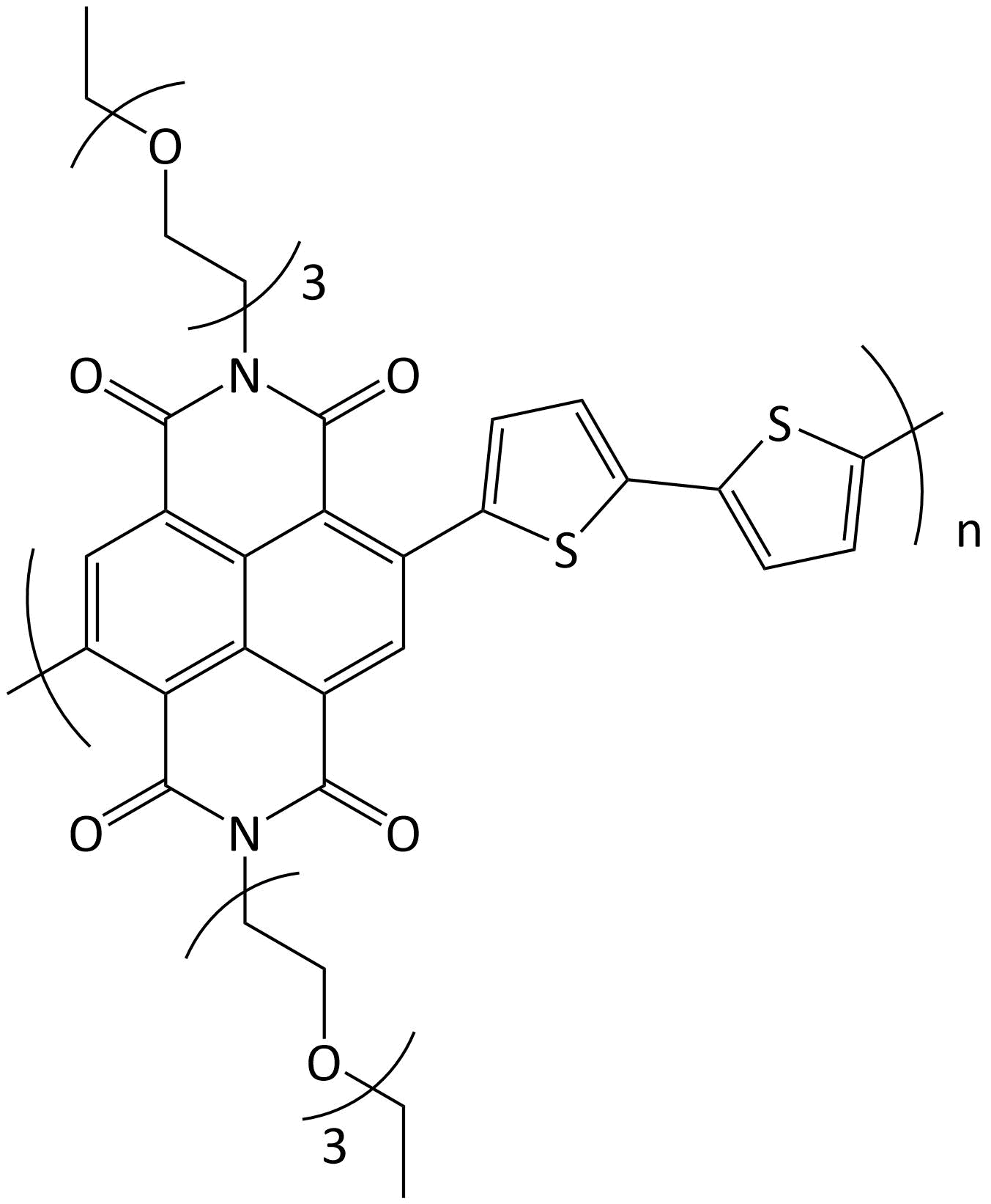 Chemical structure of P(NDI2TEG-T2) polymer